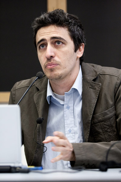 Foto di Elisa Caldana / Cinemazero